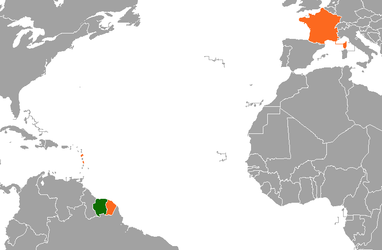 World map: Suriname-France (location) Suriname France